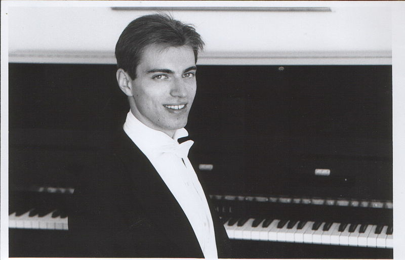 Petar Milić, Slovenian pianist.